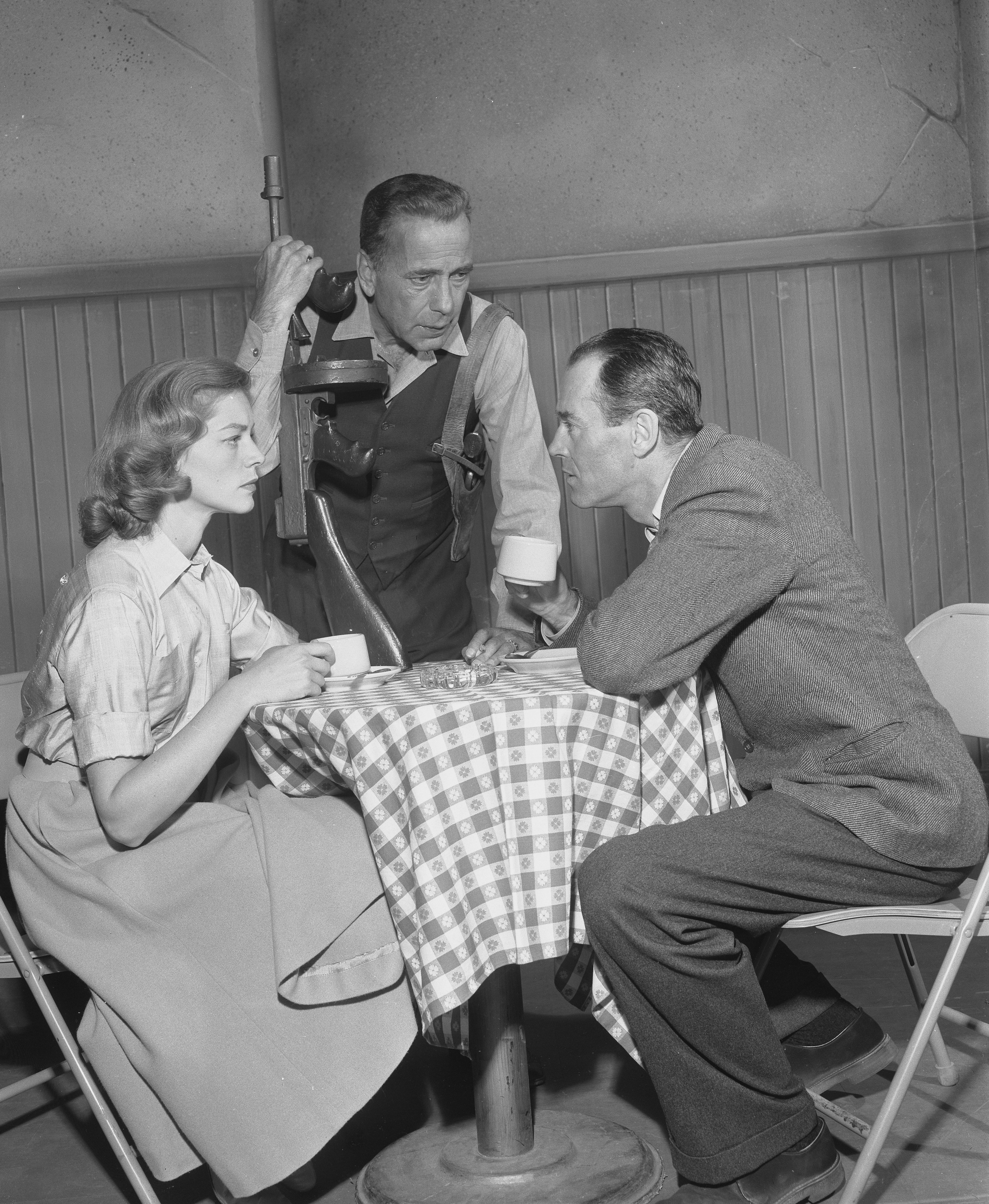 Actors Lauren Bacall, Humphrey Bogart and Henry Fonda in scene from television broadcast play "Petrified Forest"; publication date: May 29, 1955. Petrified Forest was broadcasted on May 30, 1955.